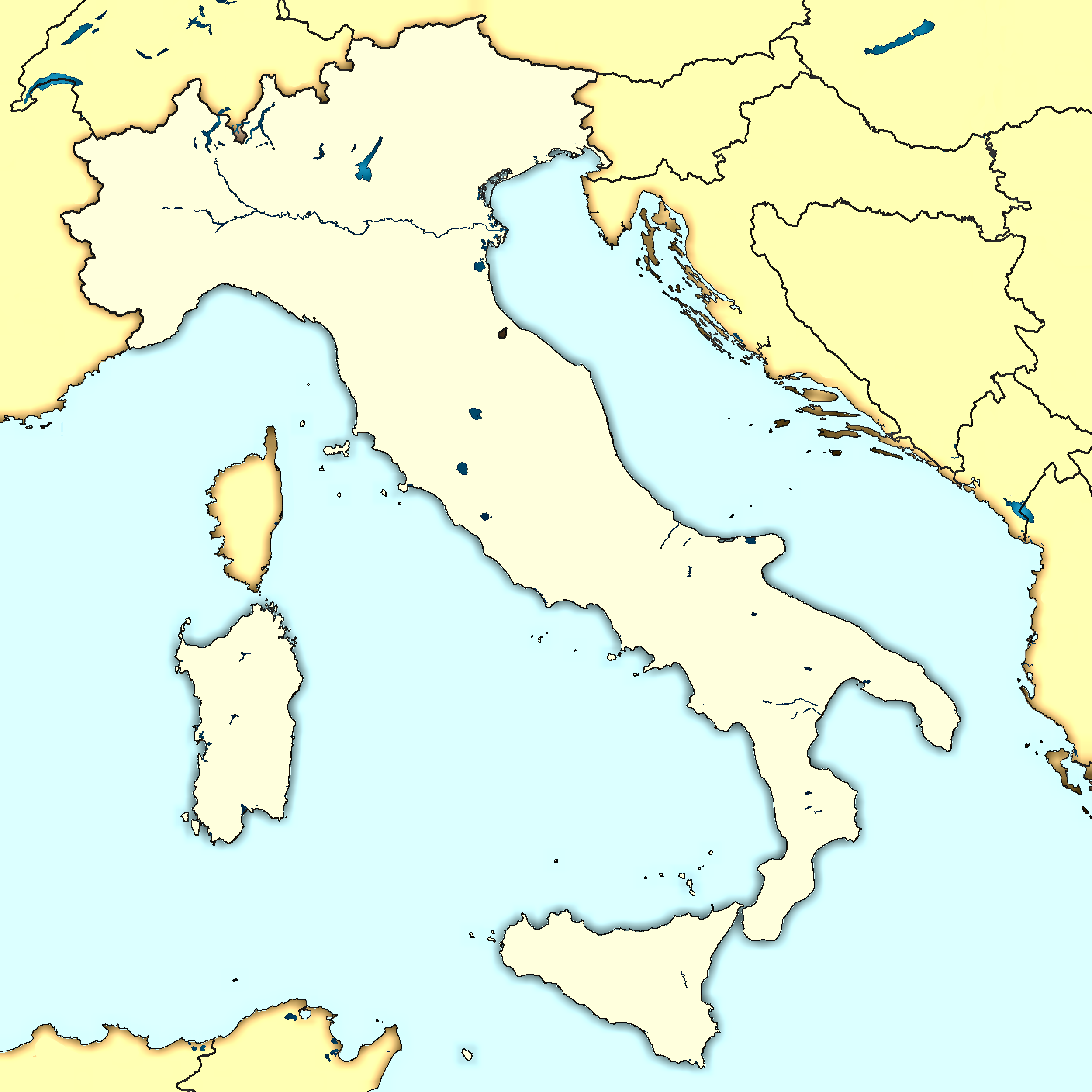 A blank map of Italy (modern style) with most important topographic features (lakes, rivers)